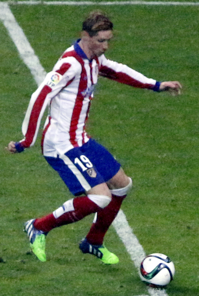 Fernando Torres running at the goal.